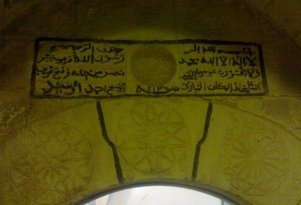 The Family History in Titel on The Door